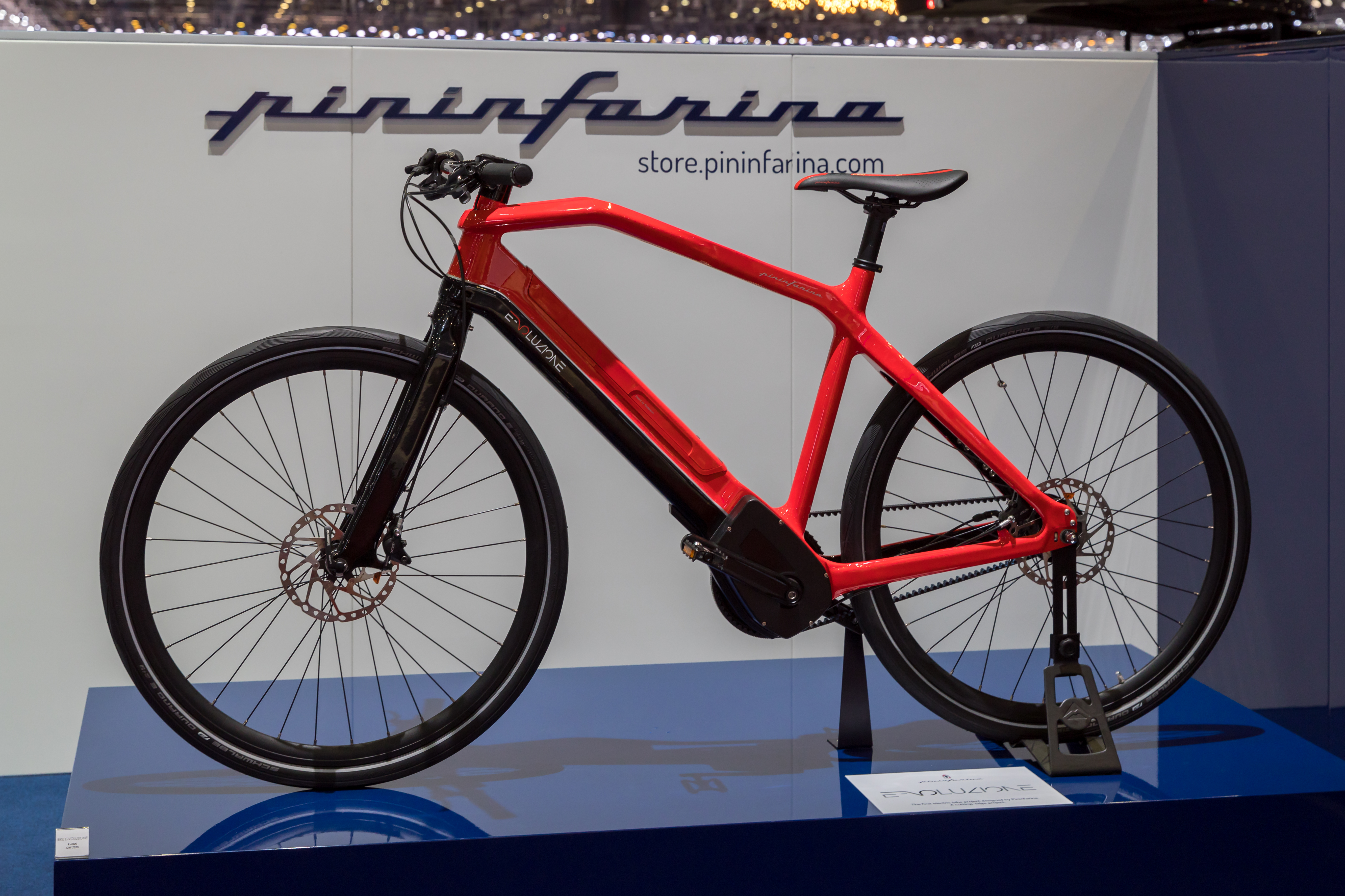 Pininfarina Evoluzione Sportiva e-bike at Geneva International Motor Show 2018